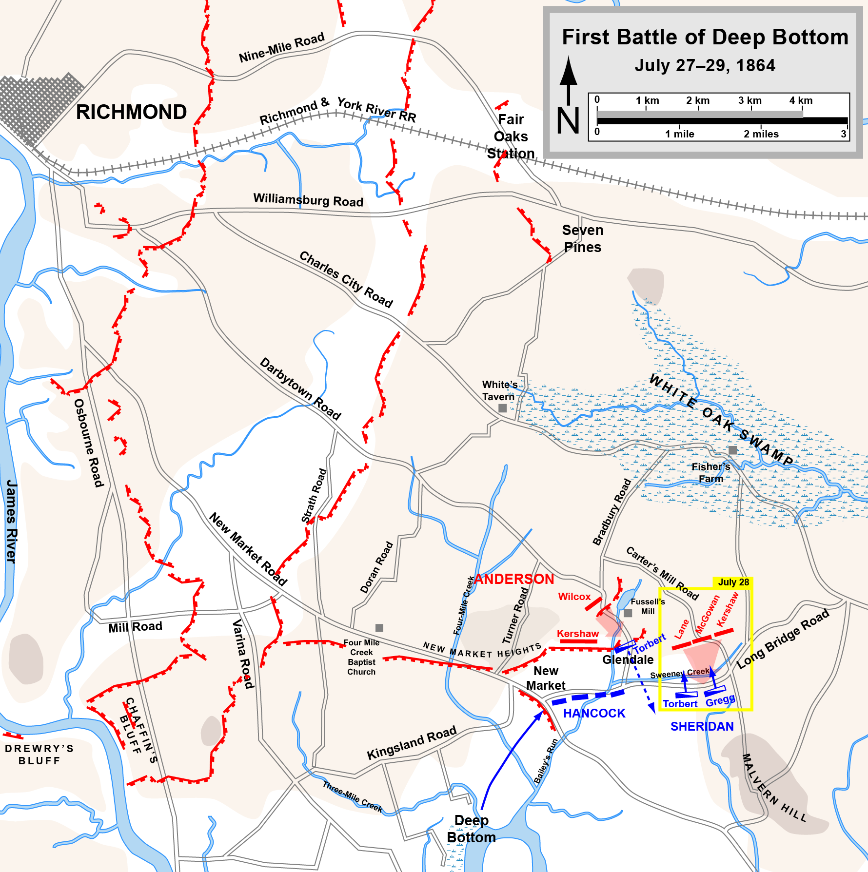 Map of First Battle of Deep Bottom of the American Civil War. Drawn in Adobe Illustrator CS3 by Hal Jespersen. Graphic source file is available at